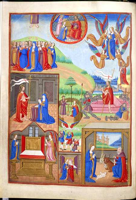 This is a remarkably large and lavishly illuminated Book of Hours, combining French and English styles. The first leaf contains a list of obits members of the royal family and of the 4th, 5th, and 6th Earls of Ormond and their wives, so it was probably made for Anne Boleyn's grandfather, Thomas Butler (1426-1515), 7th Earl of Ormond, or a member of his family. It was given in the early 16th century to a chapel at 'Suthwyke', probably Southwick in Hampshire. With no clear rationale for the selection of scenes or their arrangement, this miniature, the left-hand side of a double-page scheme, includes the Annunciation, Visitation, Annunciation to the Shepherds, Nativity, and the Ascension and Coronation of the Virgin, as well as the Resurrection of Christ, his Appearance to Mary Magdalene and to the Virgin, and his Ascension.